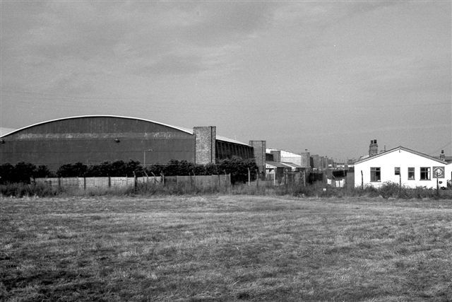 Photo of RFC/RAF Marske.